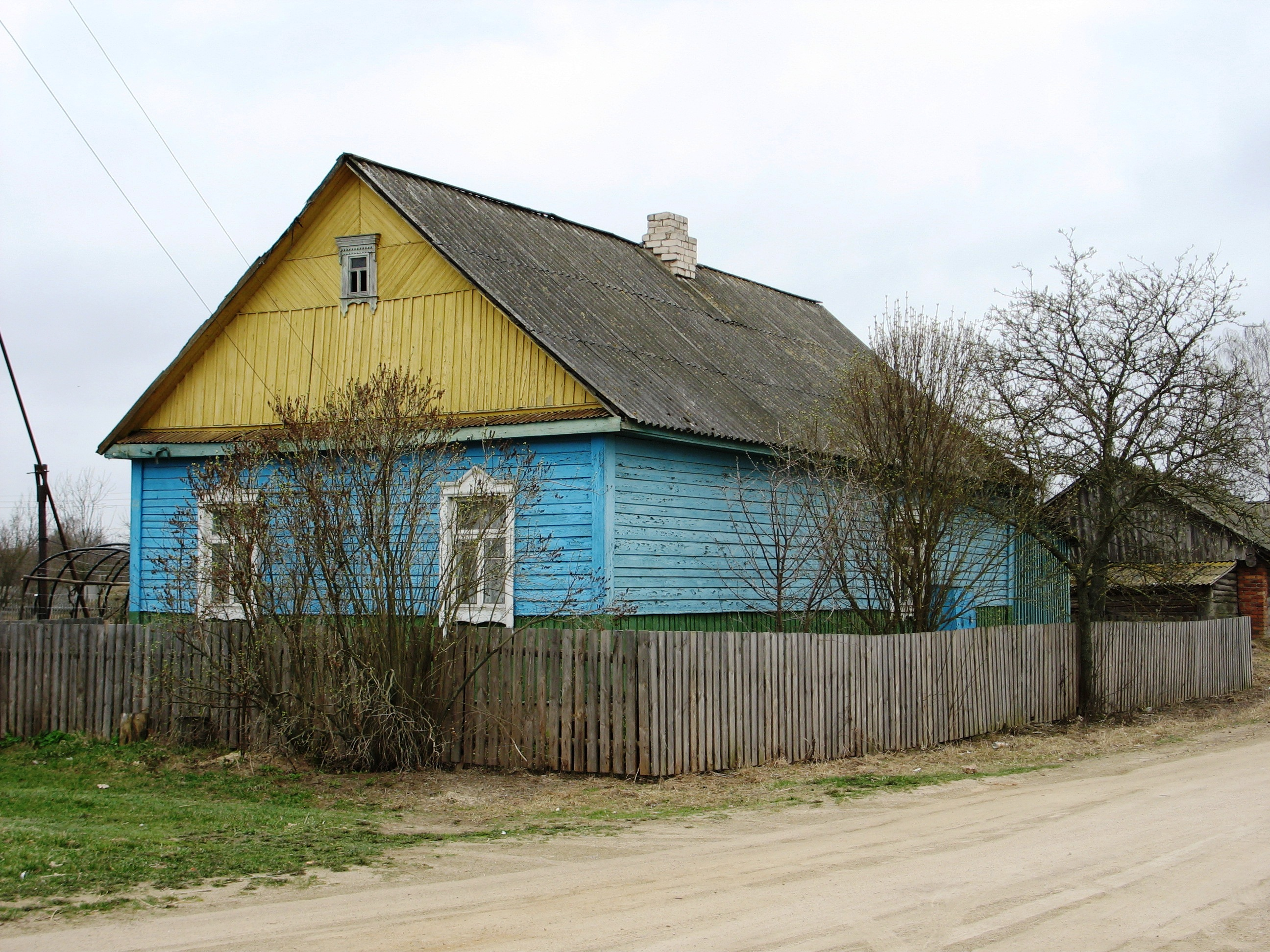 village Zazhevichy, Belarus Вёска Зажэвічы ў Салігорскім раёне Менскай вобласьці